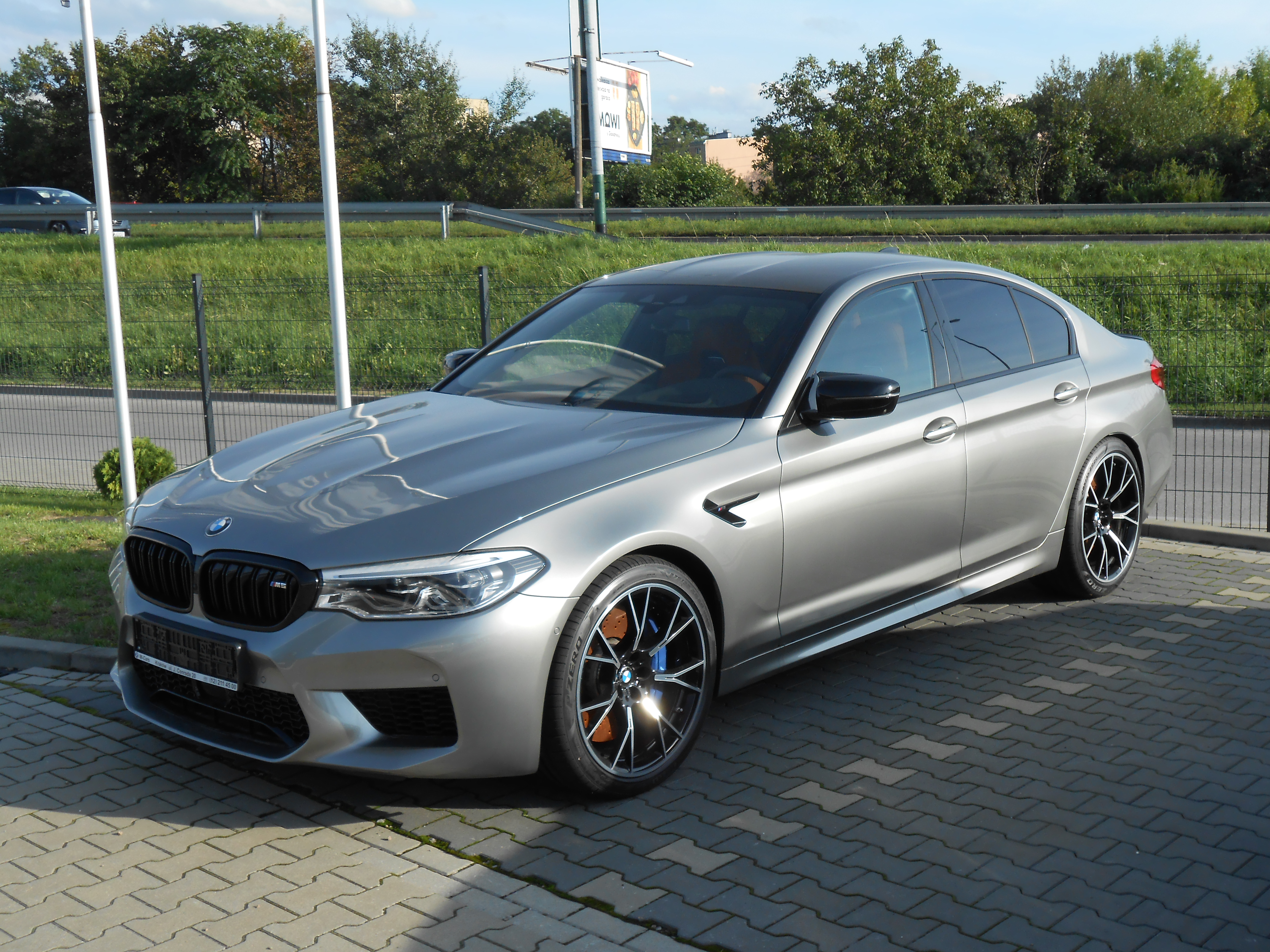 BMW M5 in Krakow, Poland